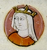 Joan I of Navarre